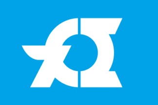 Flag of Oe Yamagata